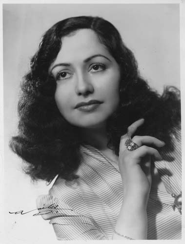 Sussy Derqui- actriz y vedette